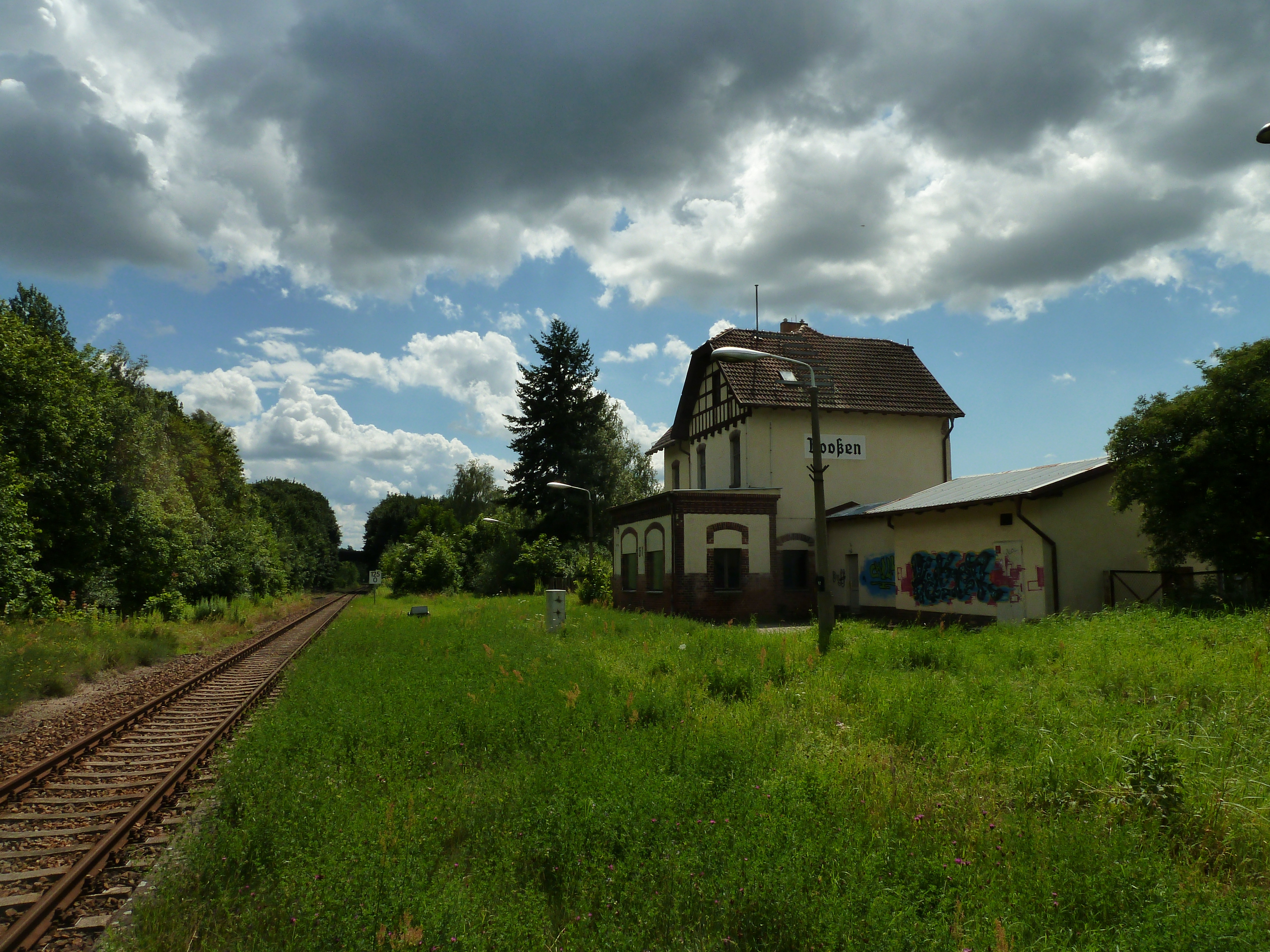 Booßen train station, former station building, view from former platform